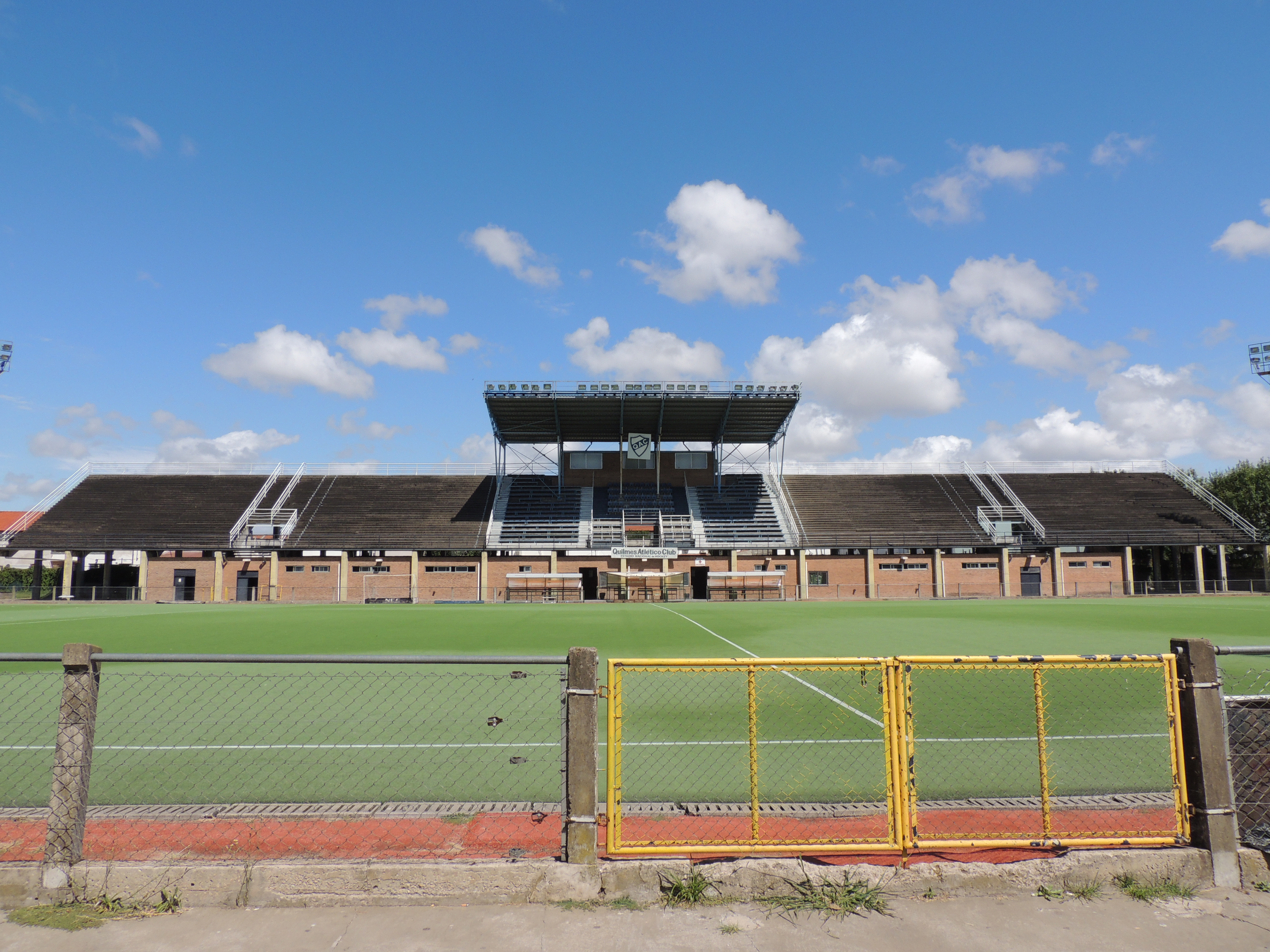 National Hockey Stadium of Argentina in March 2019.